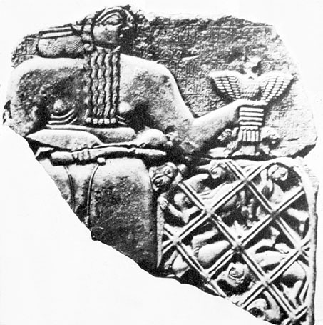 The Stele of Vultures (black and white photo)